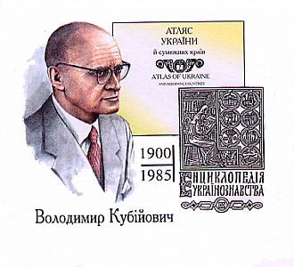 Postal Stationery Issued in 2000. Volodymyr Kubiyovych (1900 - 1985) - author of Ukrainian Encyclopedia. Cachet Design. Denominational Value: Original "D". Denominational Colour: Multicolour. Printers: Polygraphic Company "Ukraine" - Kyiv.